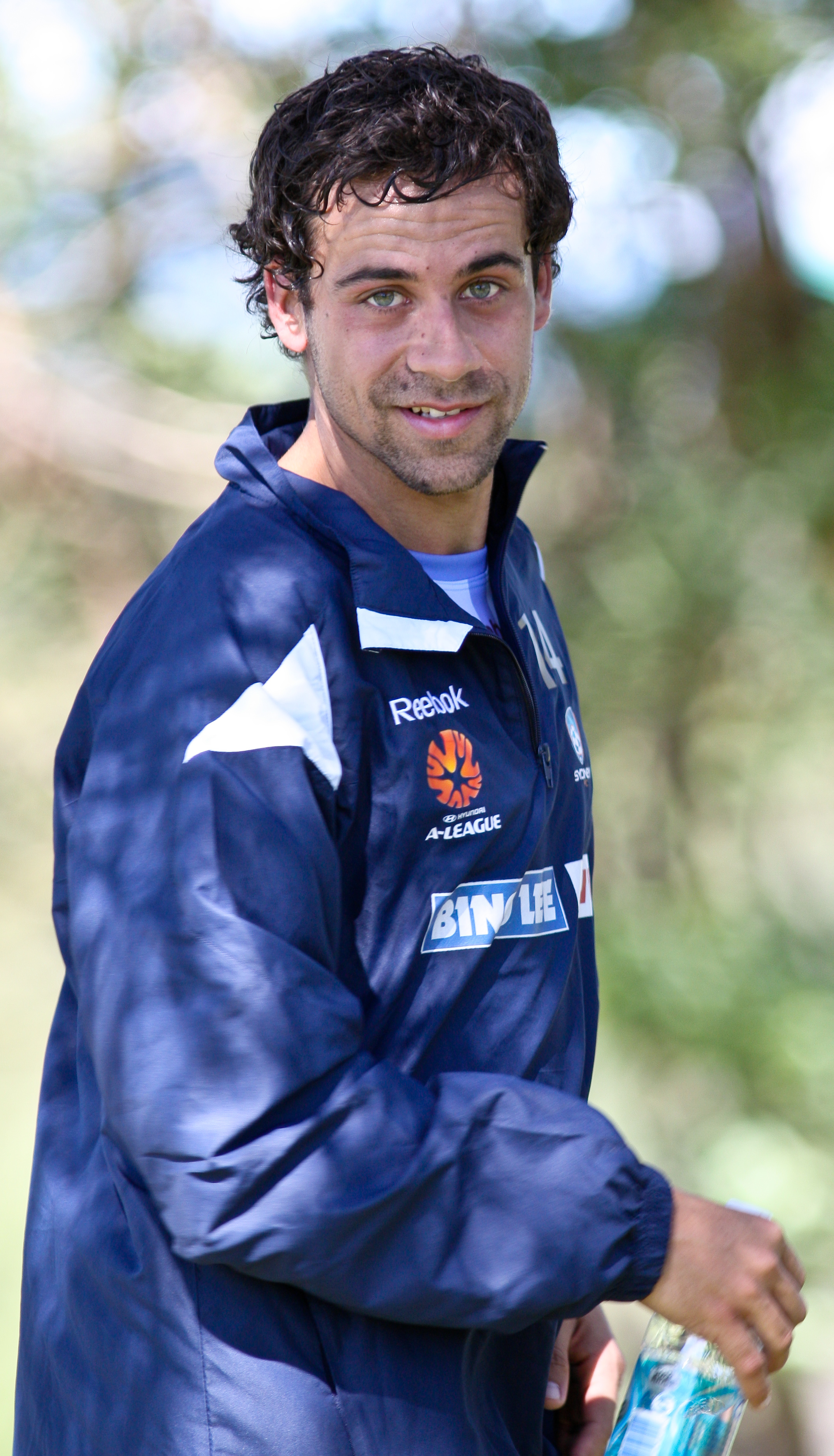 Alex Brosque at 2009-2010 pre-season training with Sydney FC.